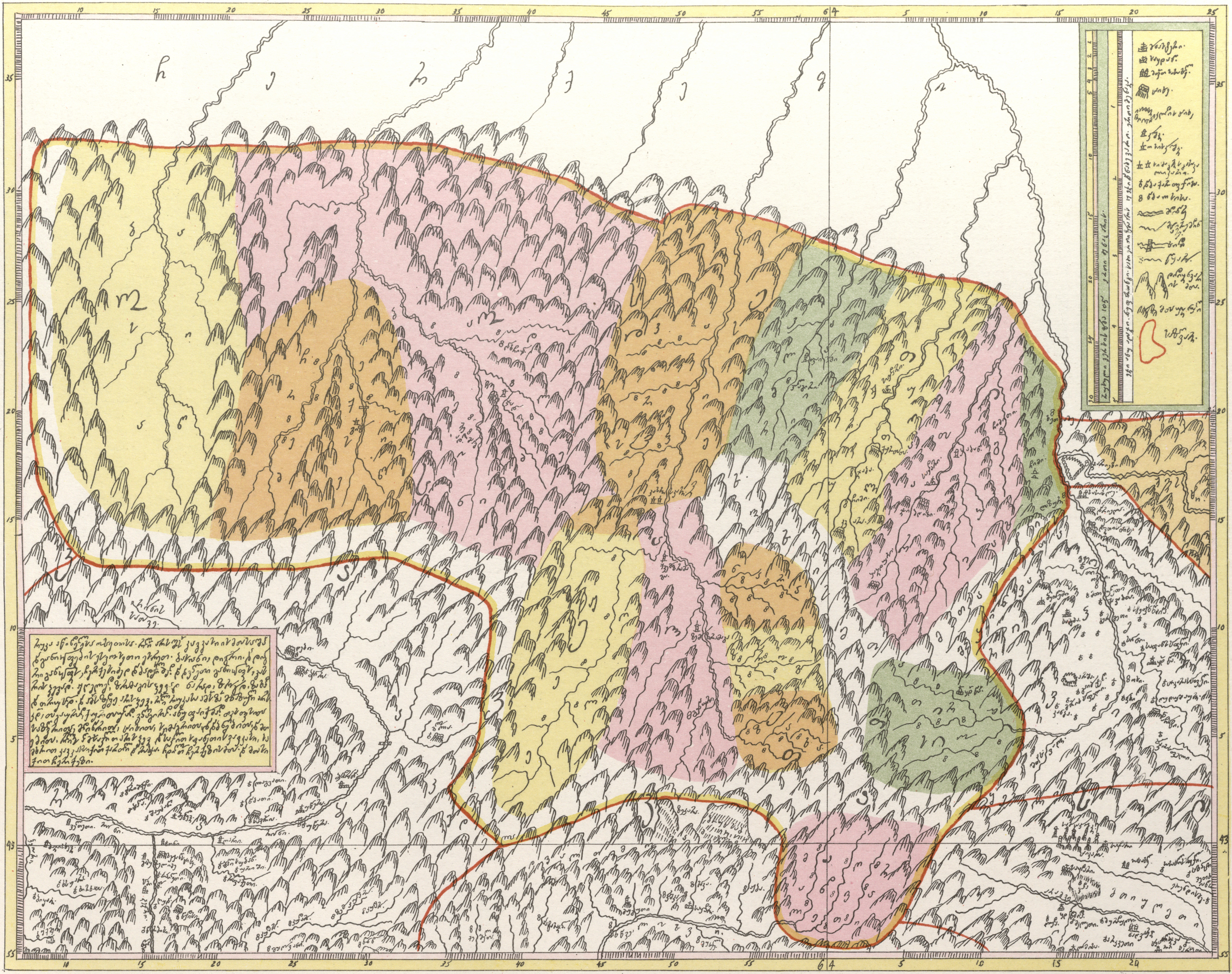 Map of Georgia by Prince Vakhushti Bagrationi